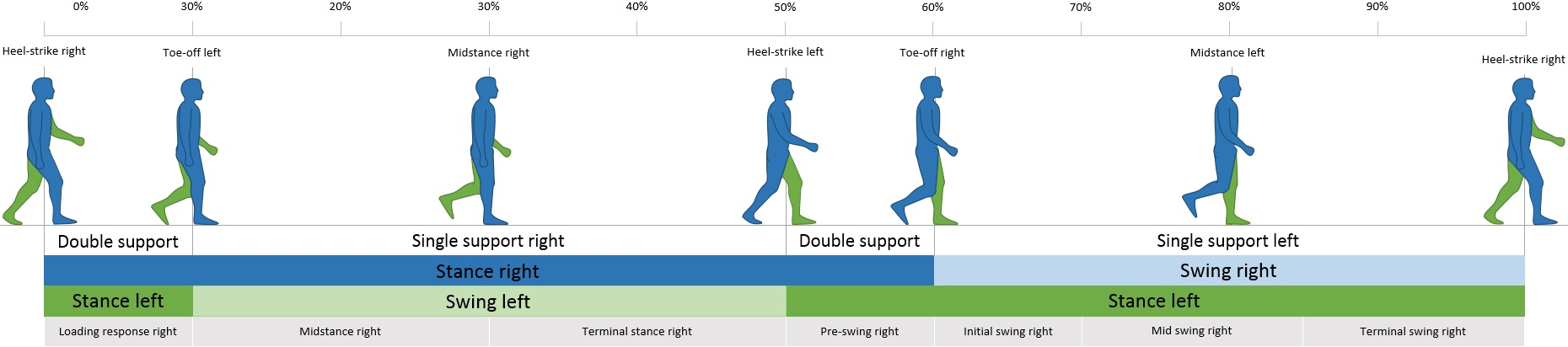 Walk cycle Based on: Jonathan T. Finnoff, DO, Mark A. Harrast, MD (2016): Sports Medicine. Study Guide and Review for Boards, Springer, p. 34 David J. Magee (2014): Orthopedic Physical Assessment, Elsevier, p. 984 Christopher L. Vaughan (1984): 'Biomechanics of Running Gait' in Critical Reviews in Biomedical Engineering, Volume 12, Issue 4, p. 6